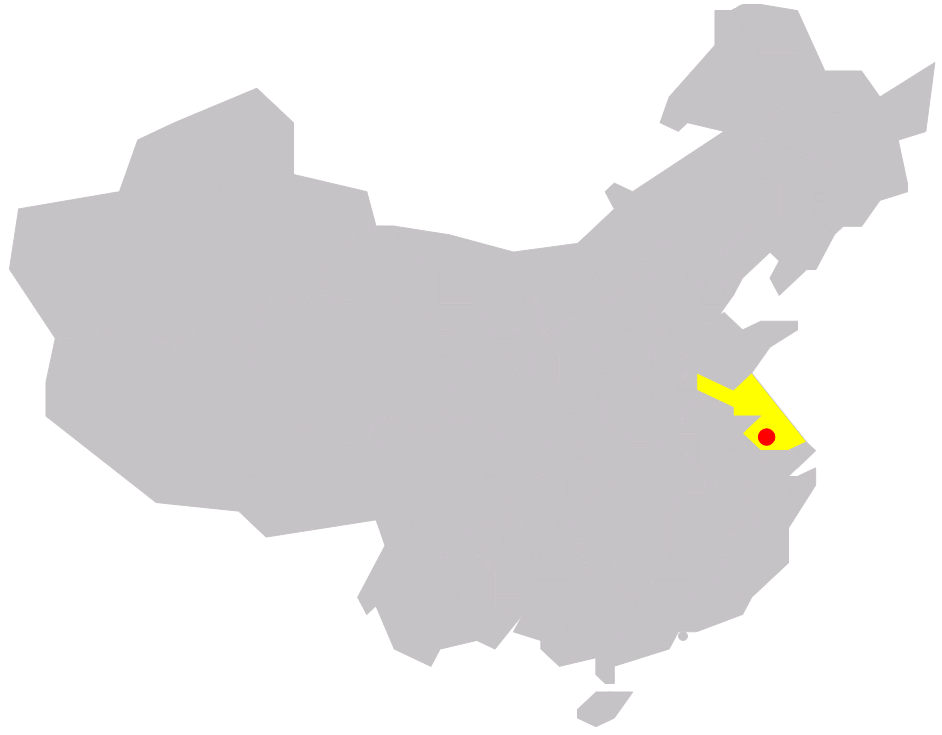 position of Zhenjiang in China